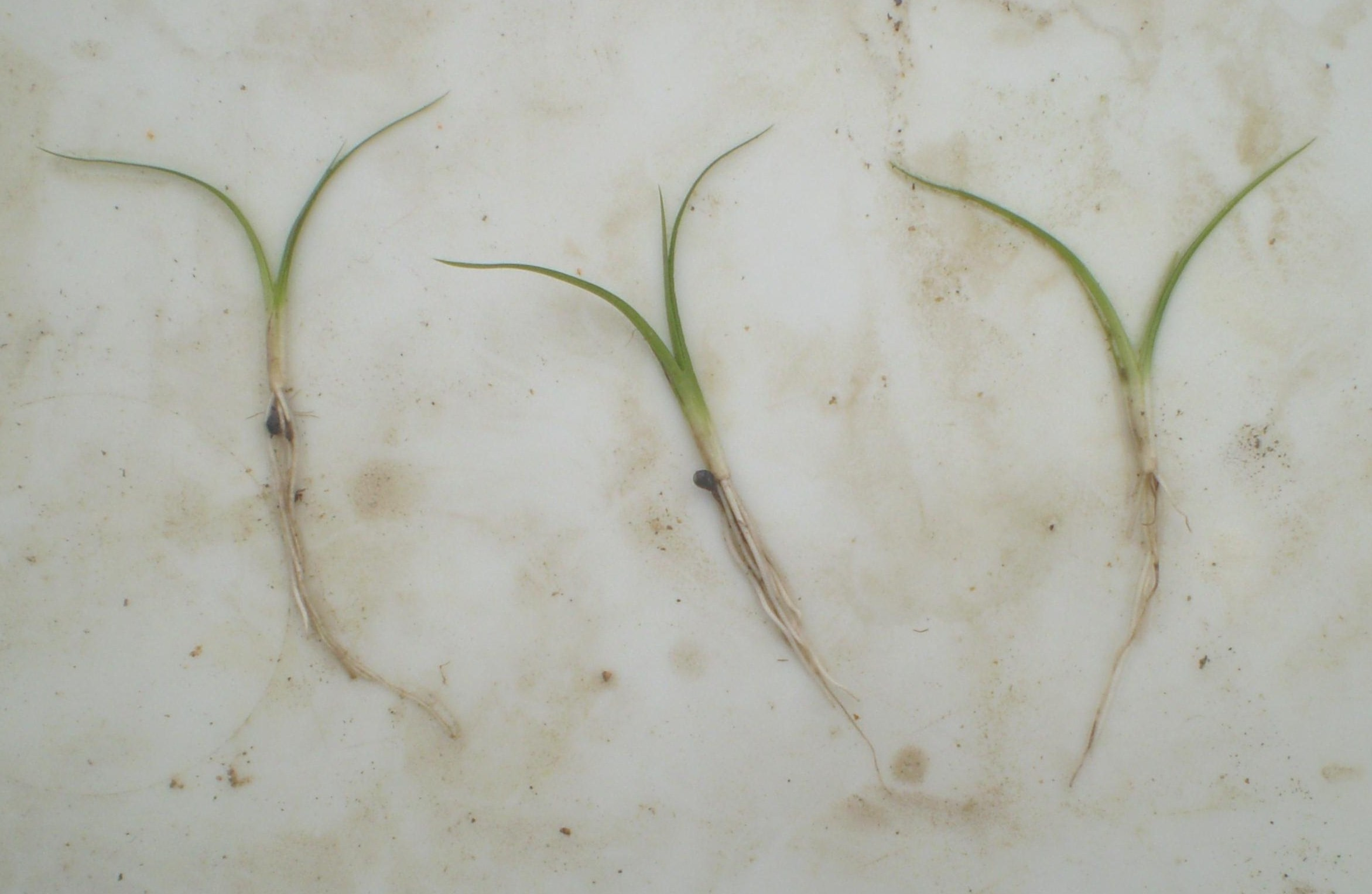 Seedlings of Blyxa echinosperma (Subuta)